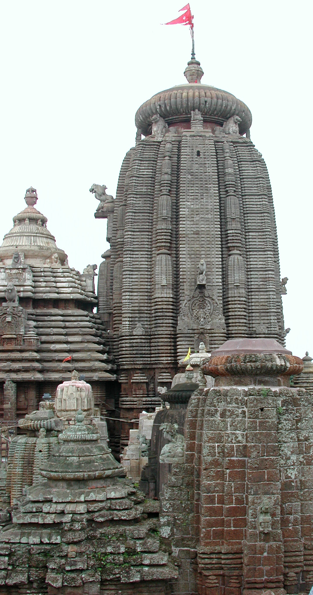 Main Tower of Hindu Shiva Temple Lingaraj in Bhubaneswar, Orissa, India